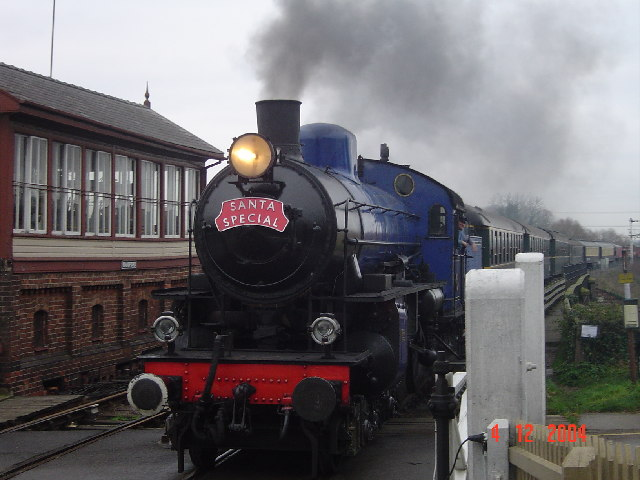 A danish locomotive pulling the Santa special on the Nene Valley Railway